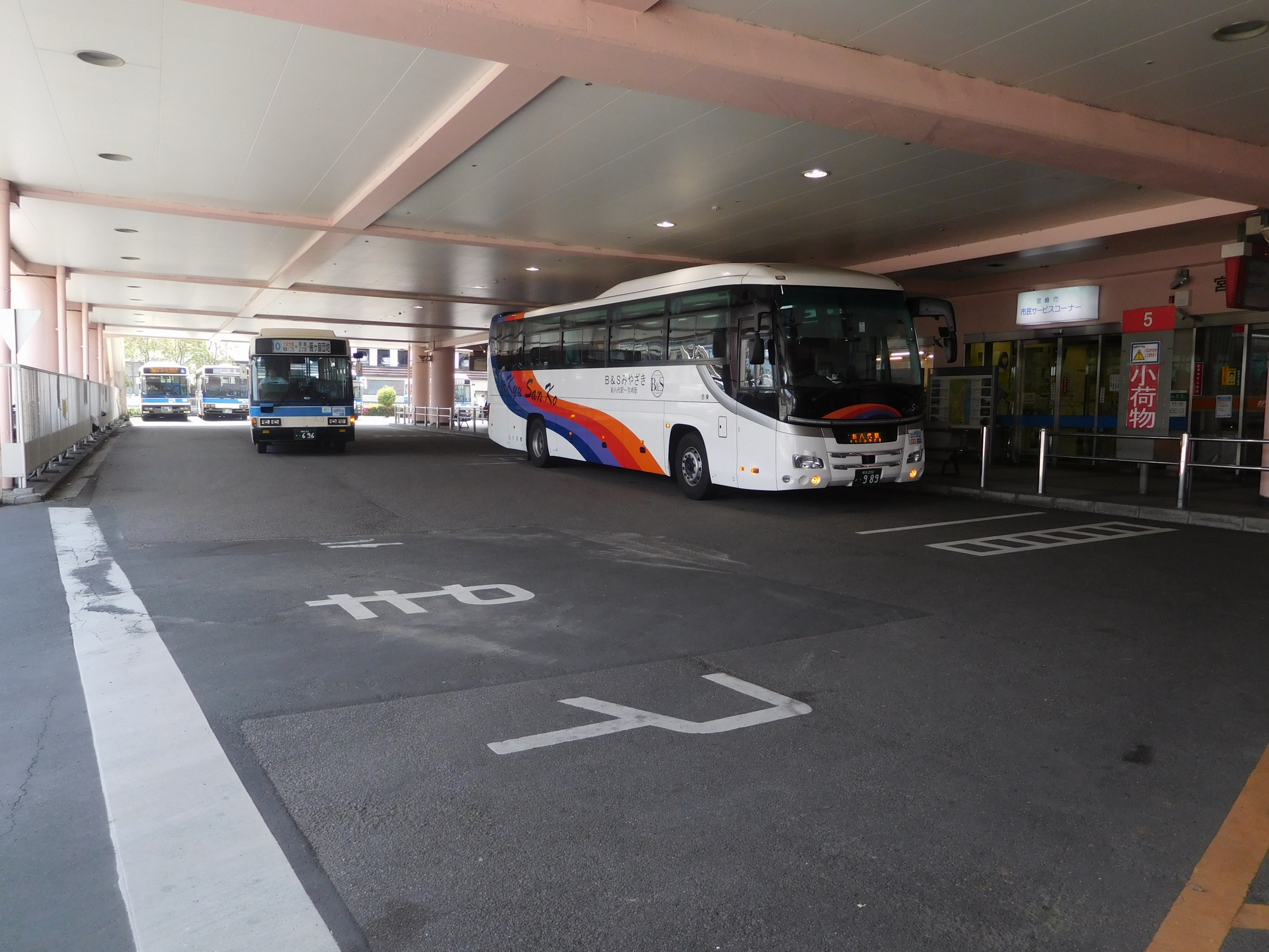 "Miyako City Bus Terminal" in Miyazaki City, Japan.